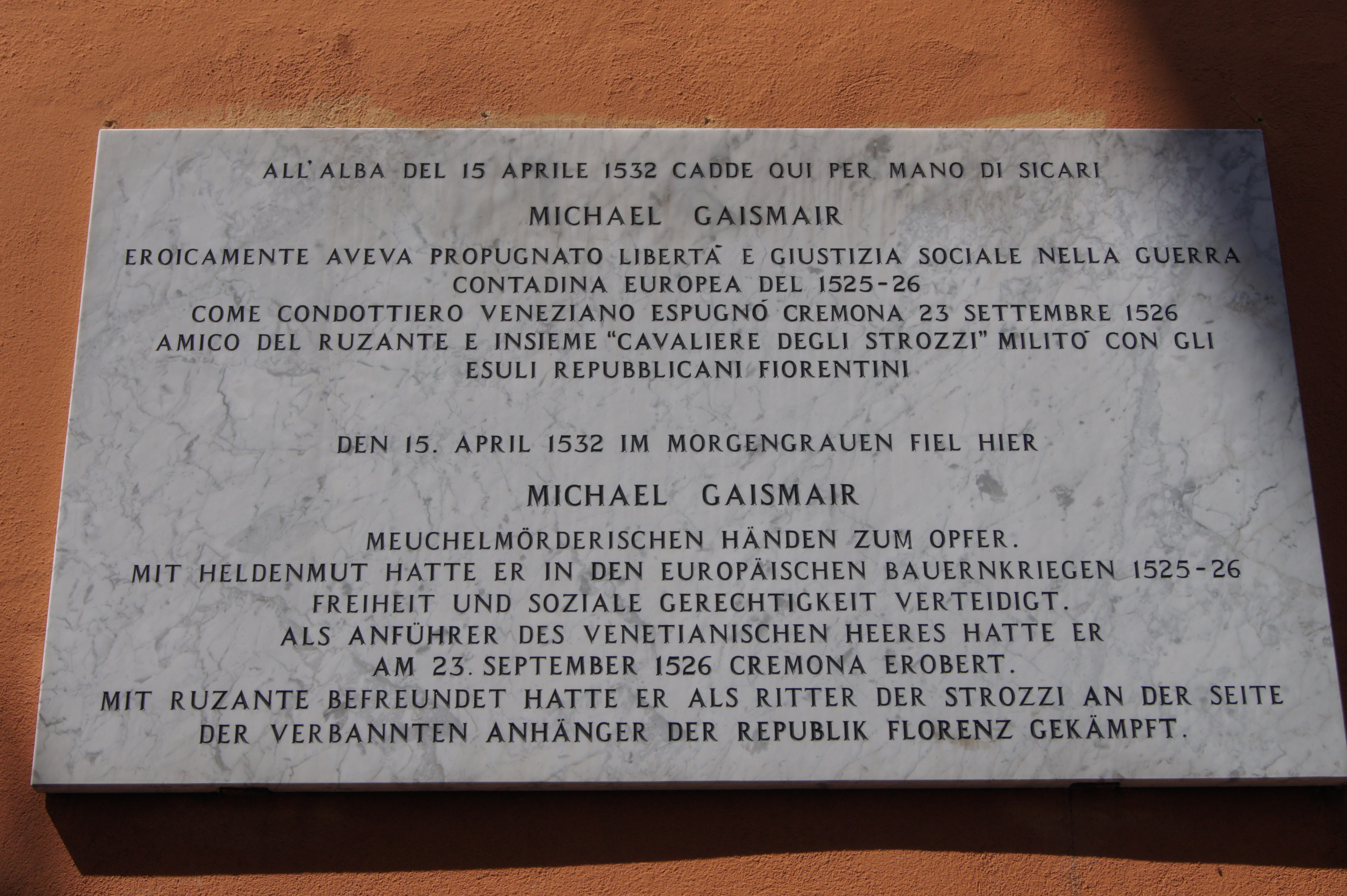 Michael Gaismair memorial stone in the spot of his assassination. In Padua, Italy.